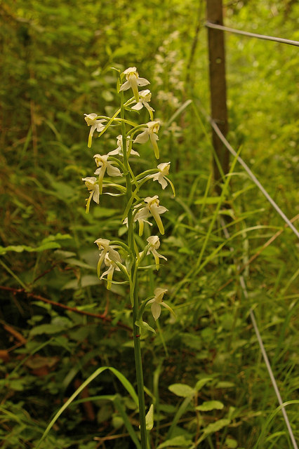 Greater Butterfly Orchid (Platanthera chlorantha) One of a small group of Greater Butterfly Orchids on Box Hill - another one can be seen in the background. This is one of the most attractive species of orchid in the UK. It is pollinated by moths, and as an adaptation for this, the flowers have an extended spur containing nectar on which the moths feed. A further adaptation for moth pollination is its scent. This photo was taken in the early afternoon and the flowers were scentless. But a visit earlier in the week at dusk revealed an exquisite perfume - only released when the pollinating moths are likely to be around.